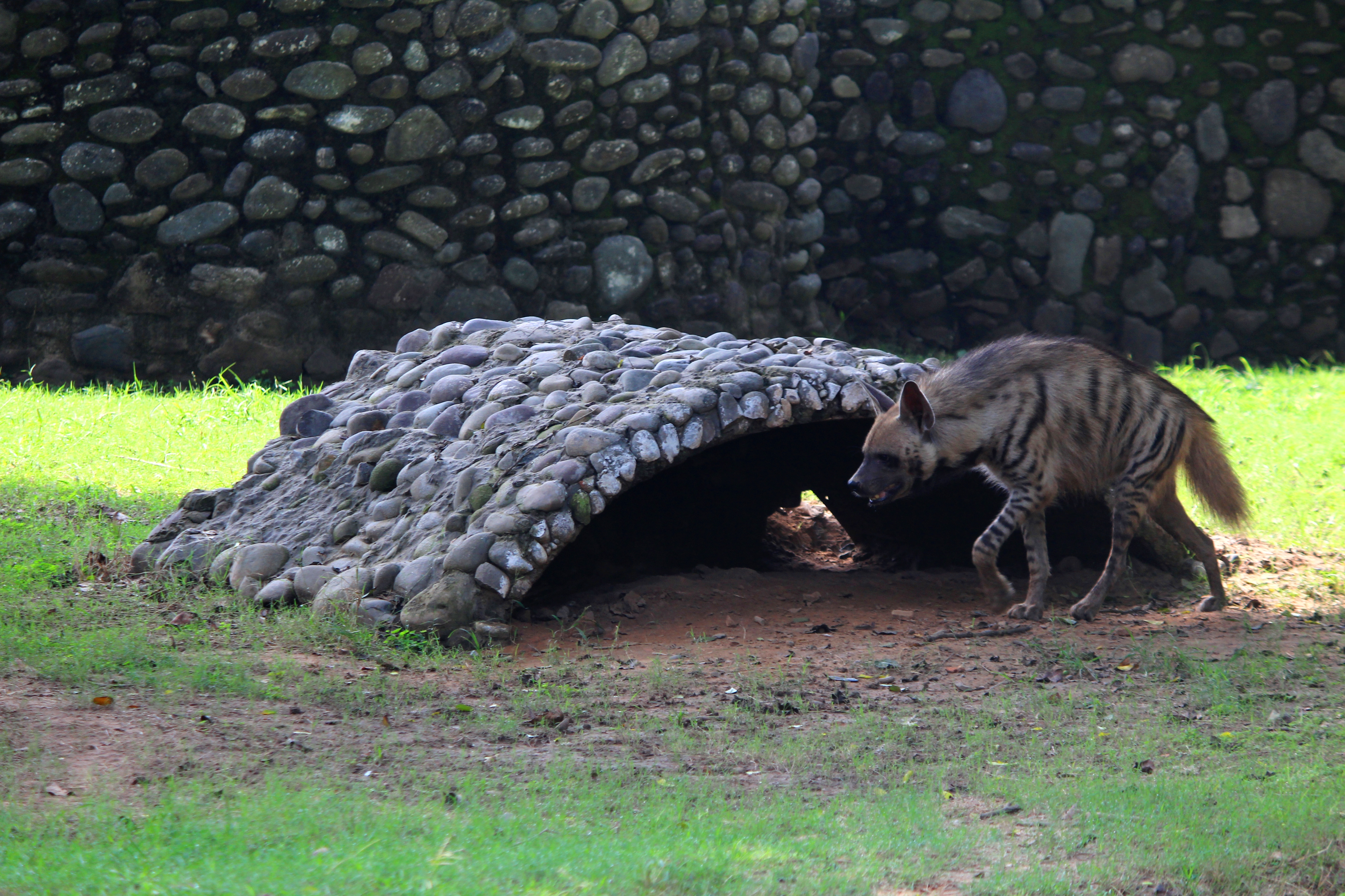 The Stripped Hyena Binomial name: Hyaena hyaena ChattBir Zoo Zirakpur Mohali Punjab